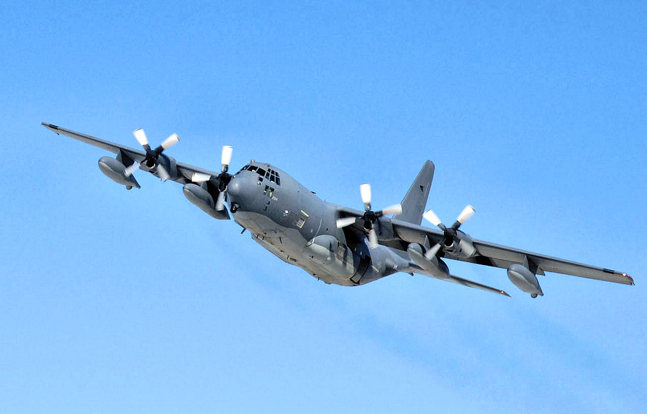 12 April 2007. A HC-130 in flight from the 211th Rescue Squadron, Alaska Air National Guard, Anchorage Alaska. Photo by Shannon Oleson, TSgt, AANG